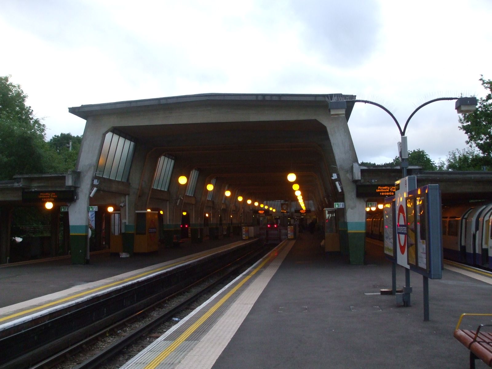 Cockfosters tube station centre track platforms 2 (left) and 3 looking towards the terminal building